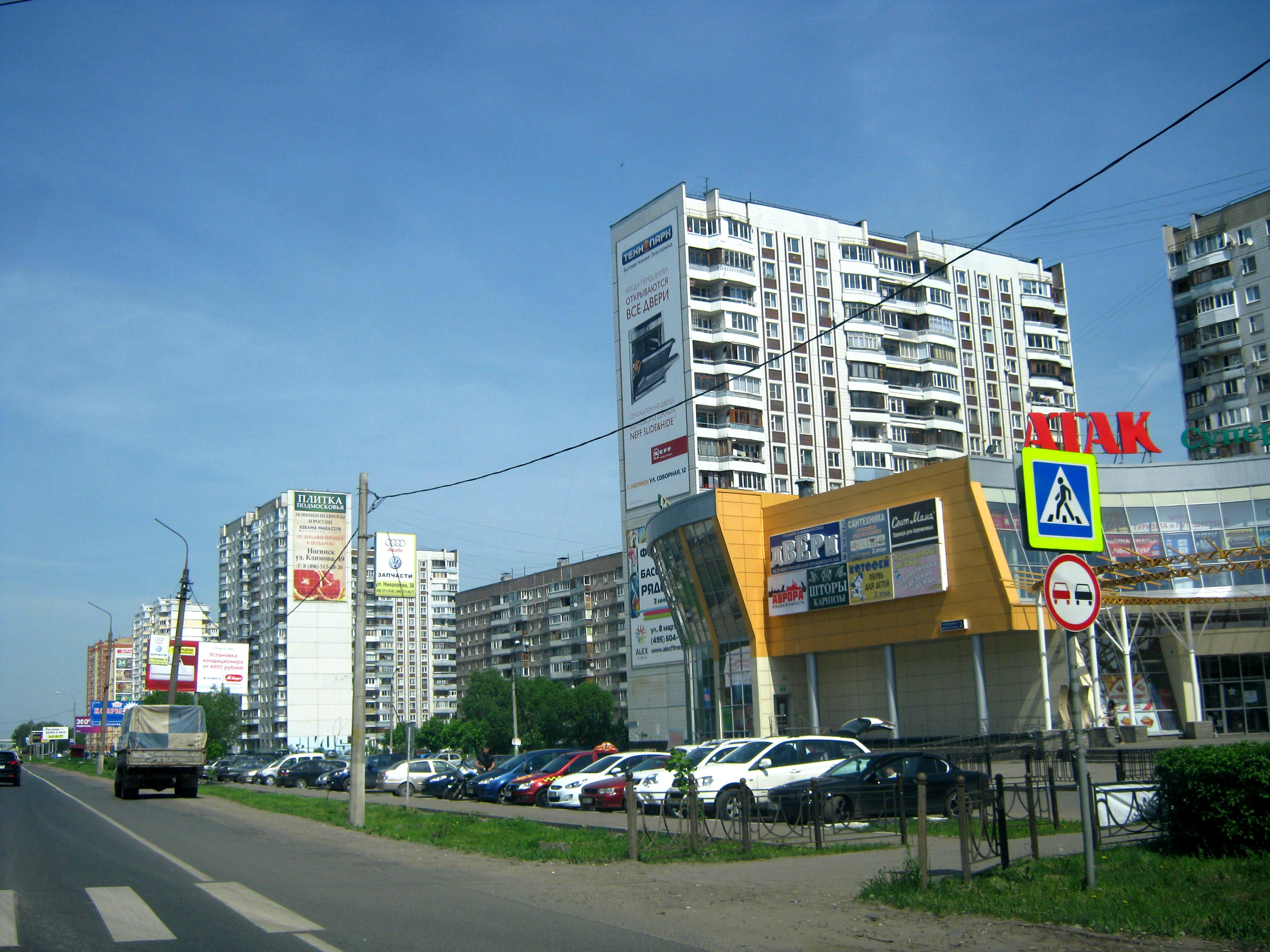 Ногинское шоссе (Электросталь)